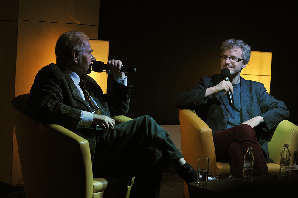 Polish writer Wieslaw Mysliwski (left) during a public talk conducted by Jakub Ekier (right) with live audience in Warsaw.